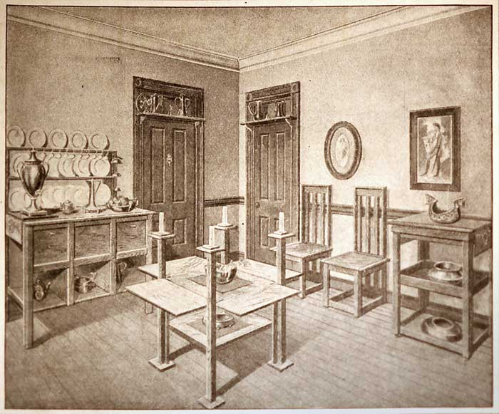 A room full of box furniture created from Louise Brigham's designs ca. 1910